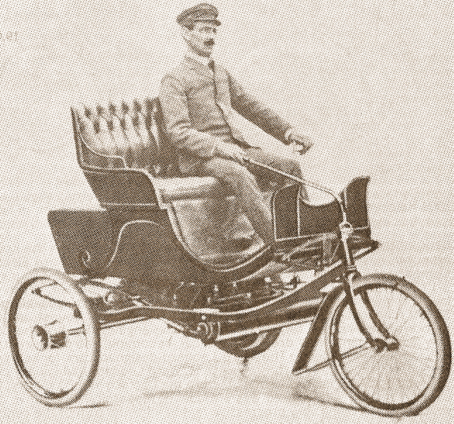 1901 Waterless Knox Threewheeler